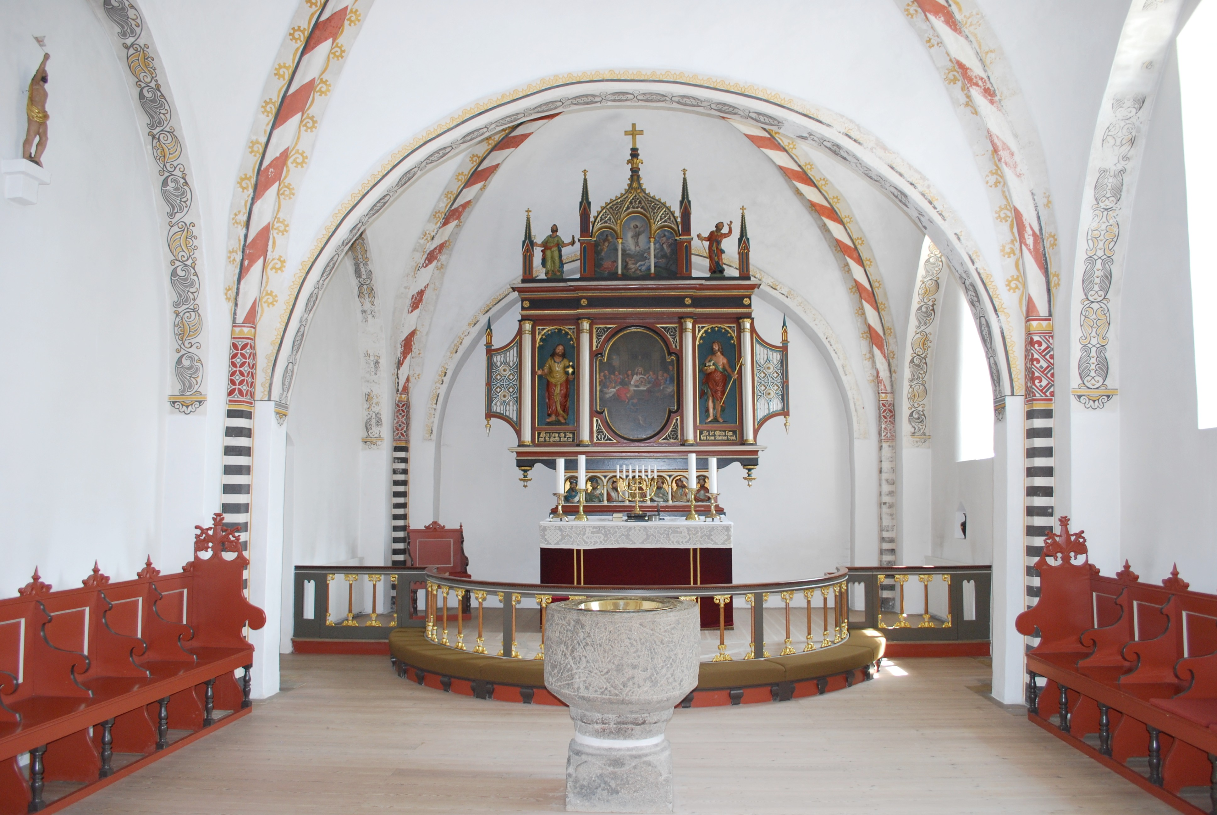 Church of Vester Vedsted - Denmark